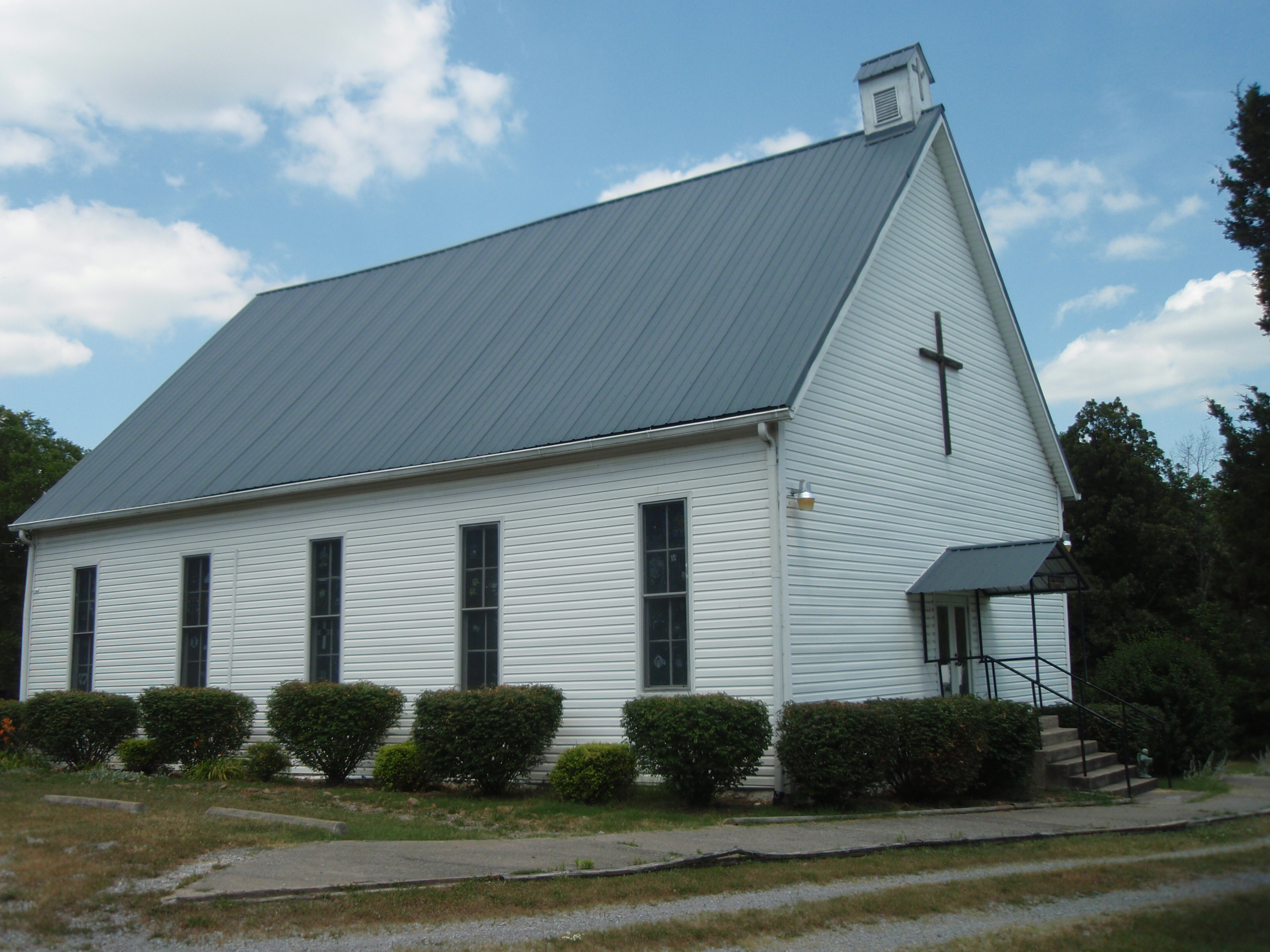 Suggs Creek Cumberland Presyterian Church, Tennessee, United States